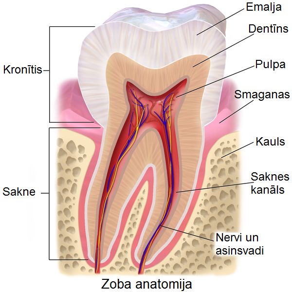 Tooth Anatomy